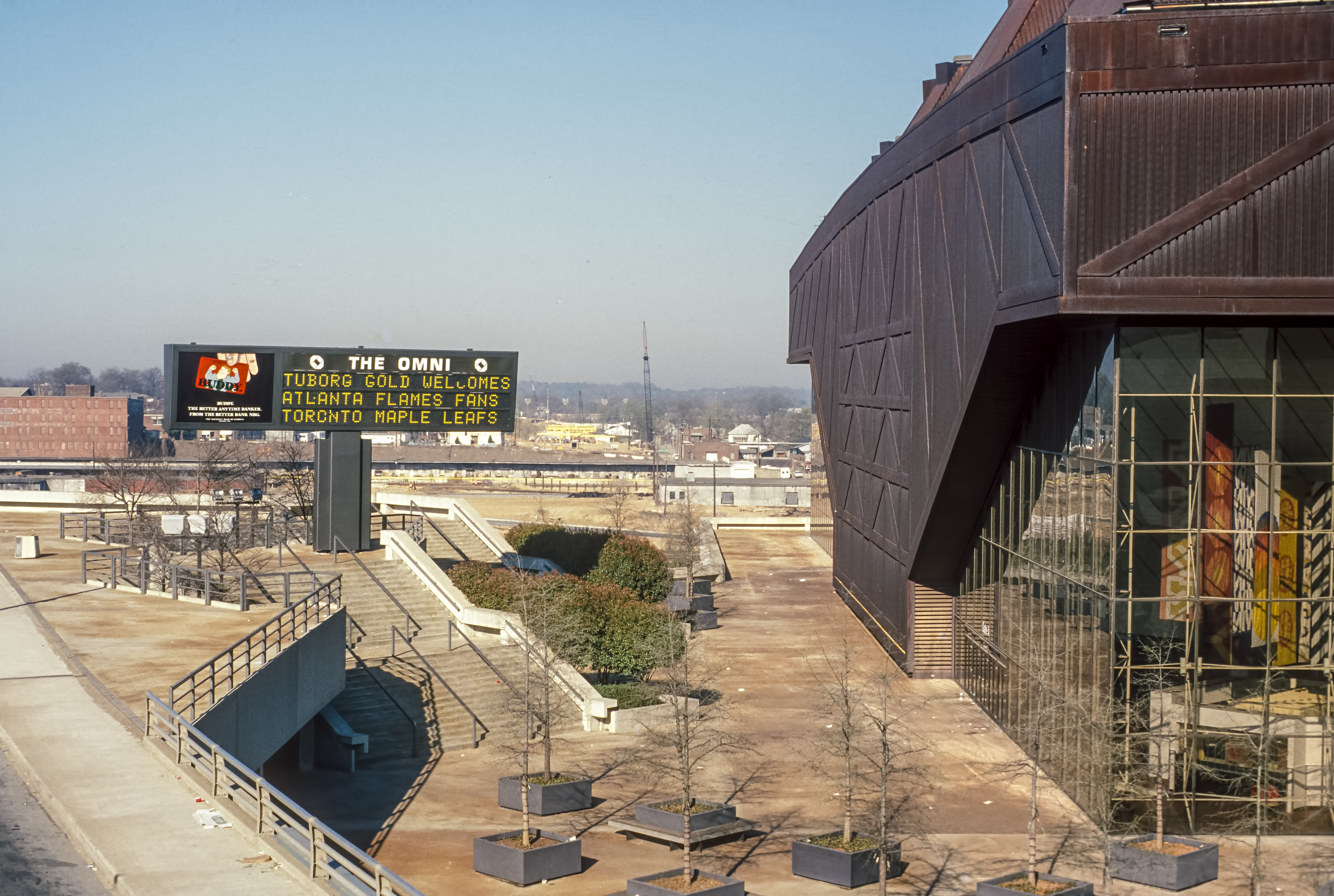 The Omni Coliseum (demolished) in Atlanta in 1977, with railyards and the Martin Luther King, Jr. viaduct in the near distance . Scanned Ektachrome slide.